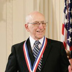 Headshot of Ralph H. Baer